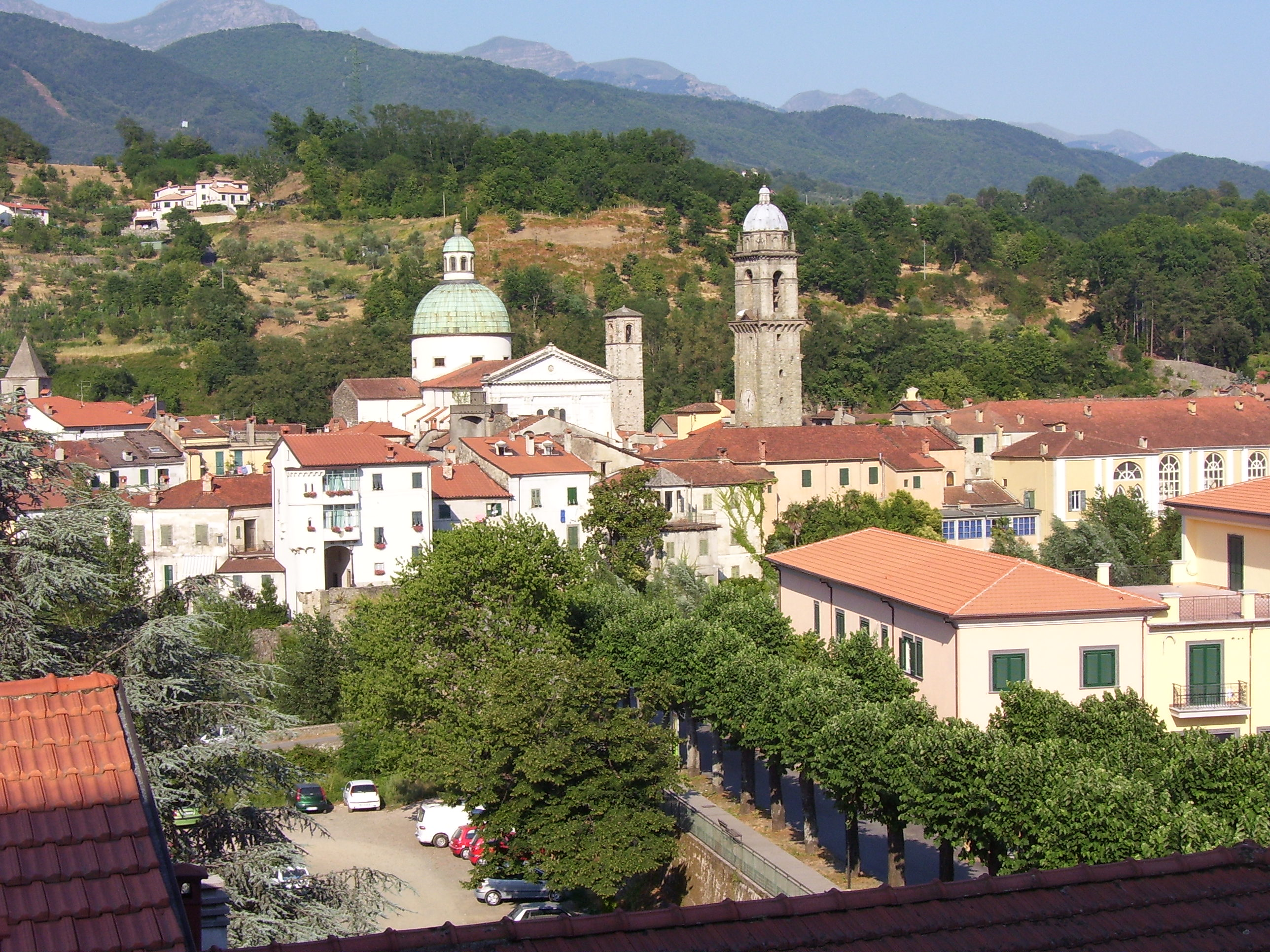 view of Pontremoli, Toscana, Italia